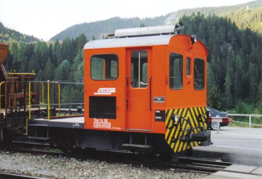 Diesel shunter Tm 2/2 15 of Rhätische Bahn in Tiefencastel